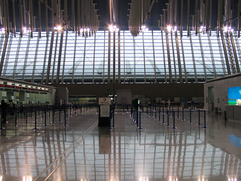 Shanghai Pudong International Airport Terminal.